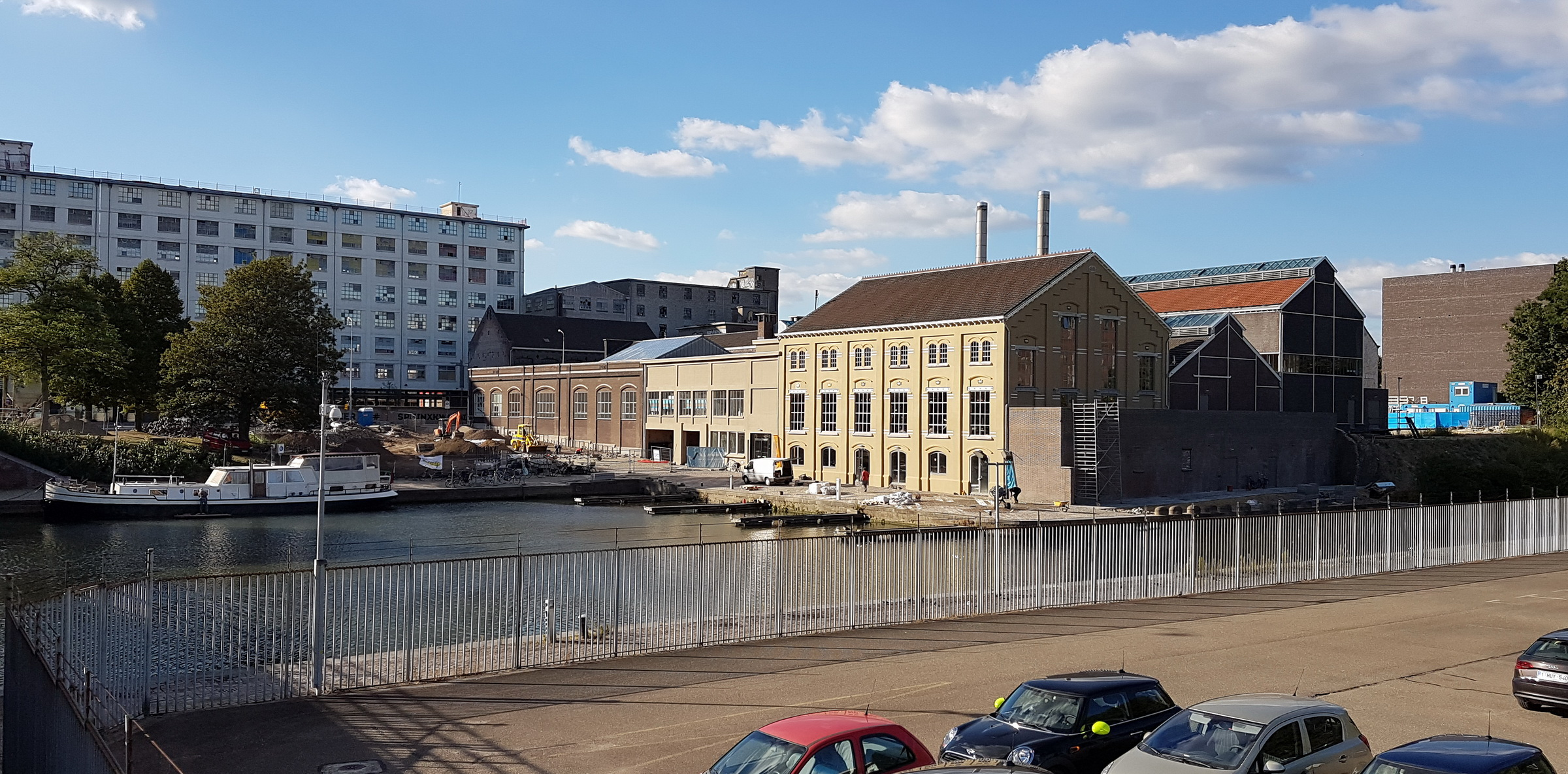 Renovation of two listed buildings on the north side of Bassin, Maastricht, the Netherlands. The buildings, the Hennebique Building (left yellow building) and the former electricity generator building of Sphinx potteries (right) will house the art movie cinema Lumière as from late 2016. The project is part of the Timmerfabriek culture cluster at the north end of Boschstraat.